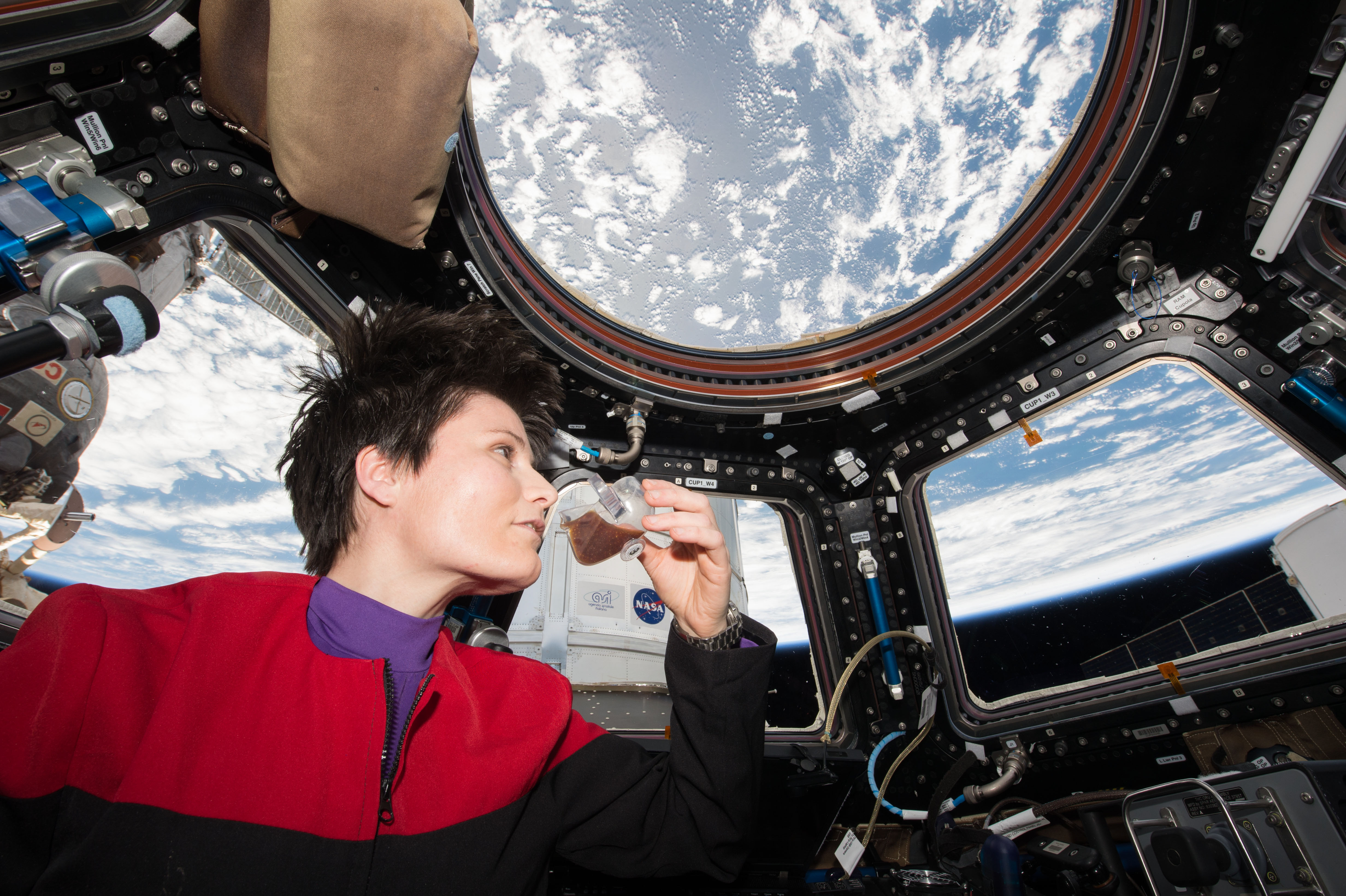 ESA astronaut Samantha Cristoforetti as Captain Janeway drinks coffee in the Cupola. "Coffee: the finest organic suspension ever devised."[1] Fresh espresso in the new Zero-G cup! To boldly brew…